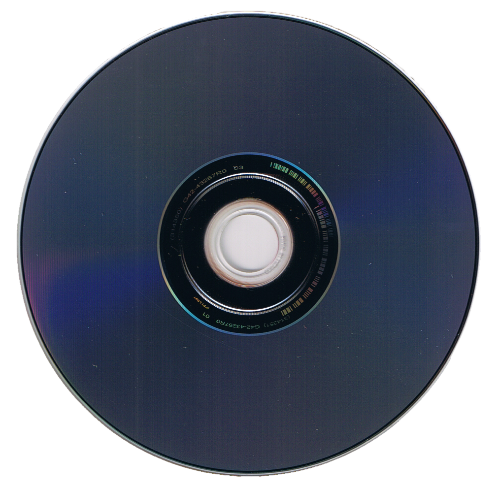 Scan of HD DVD back.